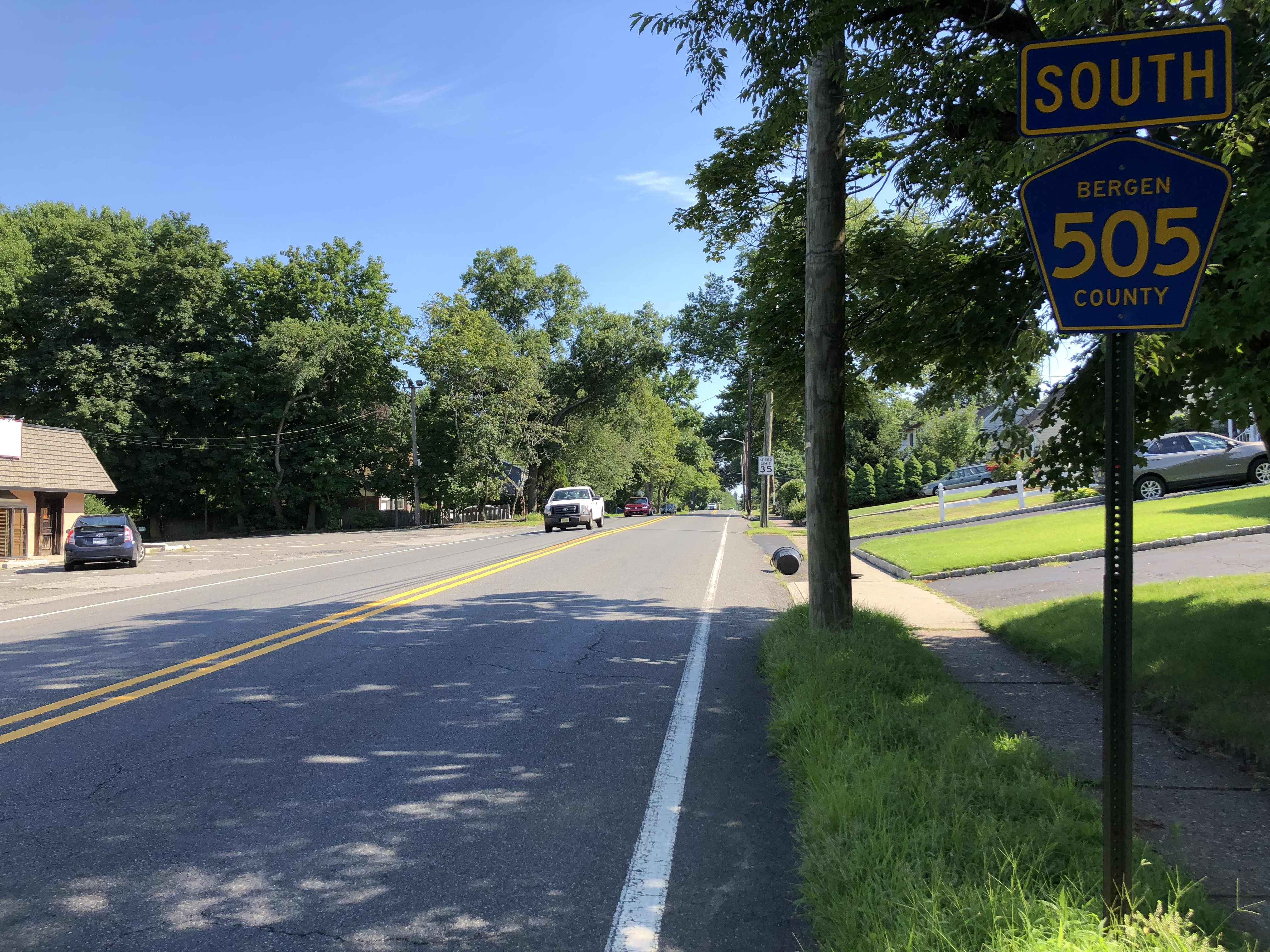 View south along Bergen County Route 505 (Knickerbocker Road) at Grant Avenue on the border of Dumont and Cresskill in Bergen County, New Jersey